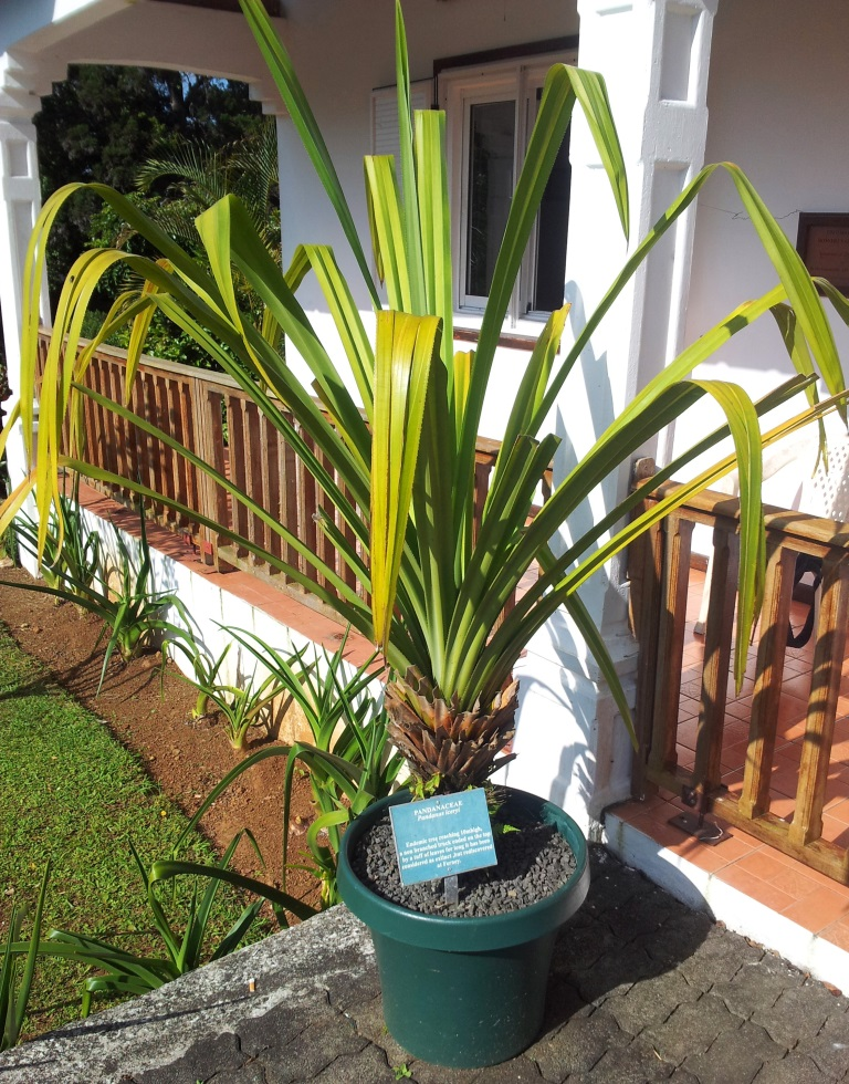 Pandanus iceryi - Monvert arboretum visitors centre - Mauritius